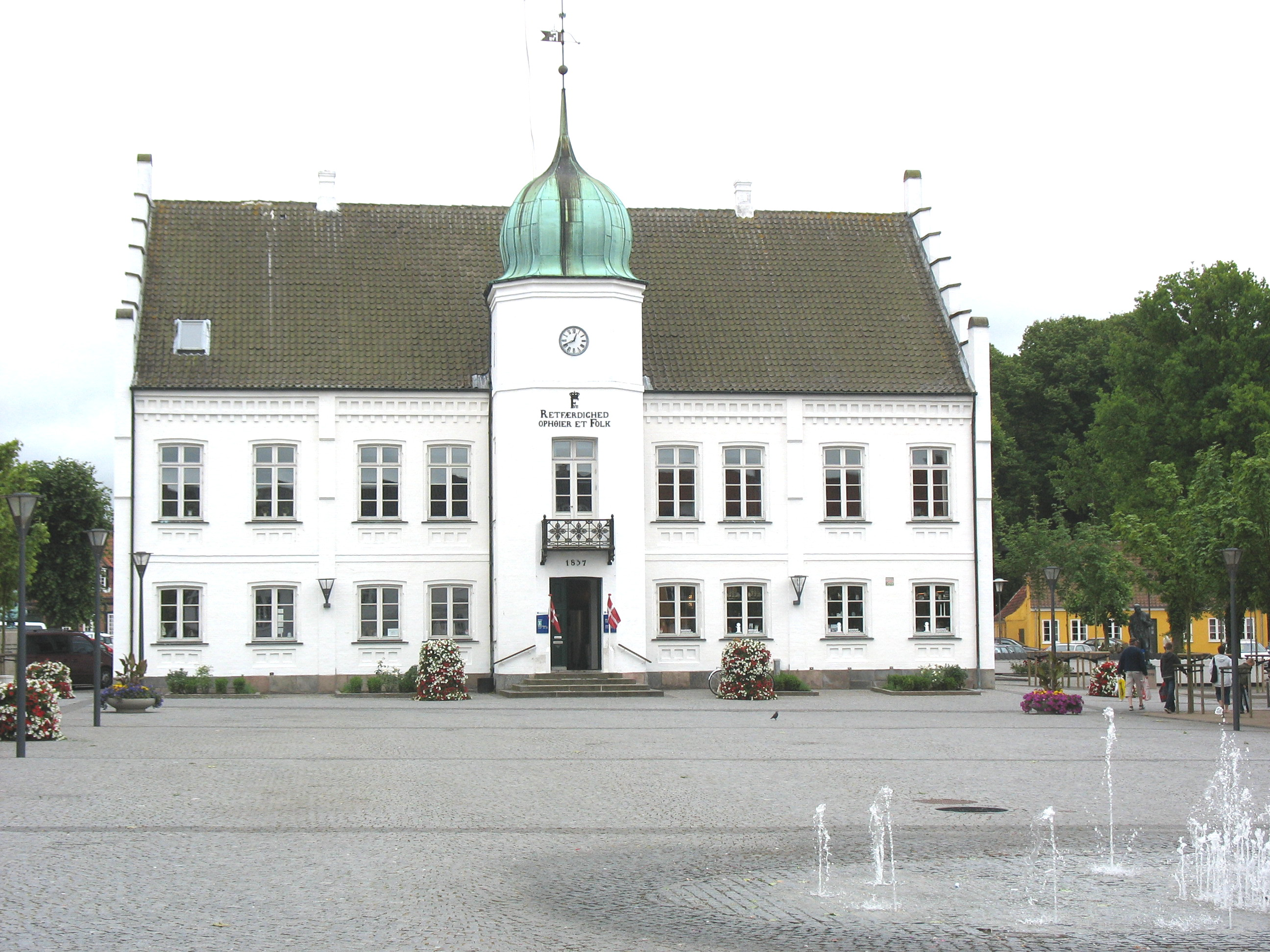 The town hall "Maribo Rådhus" in the town "Maribo". It is located on the island Lolland in east Denmark.